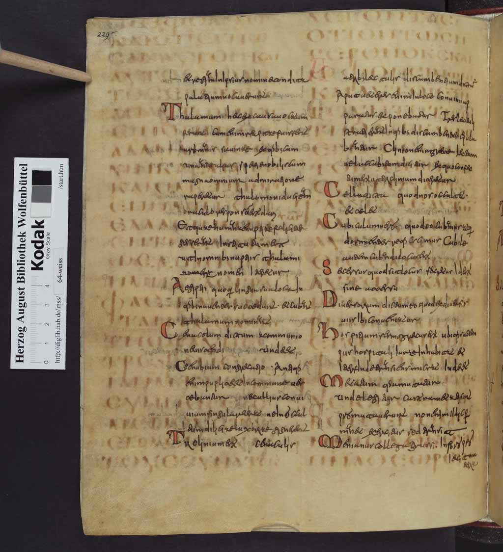 Codex Guelferbytanus A, a palipmsest, the lower text is from the 6th century, the upper text is from the 10th or 11th century